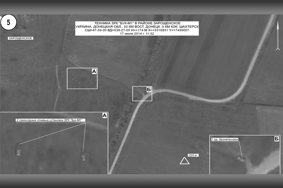 Satellite image of 17 July 2014, made in the area of the passenger aircraft route a few hours before the crash and presented by the Russian Defense Ministry at a press briefing about the MH17 flight accident. In the photo two SAM "Buk-M1" vehicles are marked as well as an armored vehicle in the area of Zaroshchenske village.